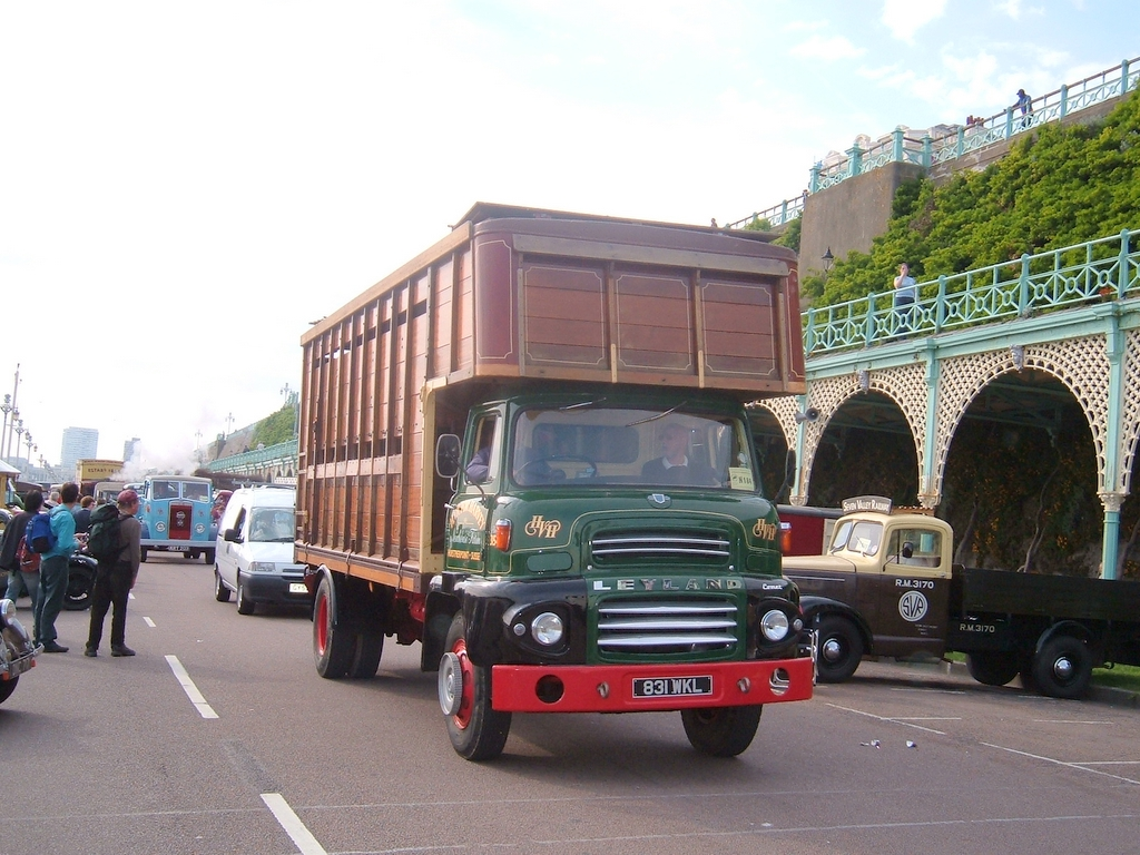 Brighton Commercial Vehicle run 2004